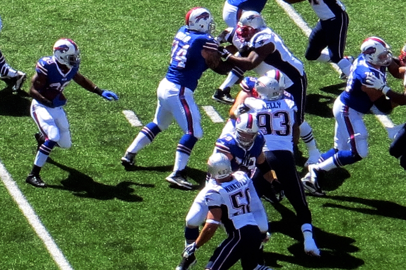 Buffalo Bills RB CJ Spiller during 2013 Patriots-Bills.